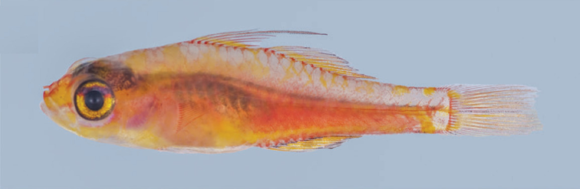 Trimma habrum male 16.8 mm, Penemu Island, Raja Ampat